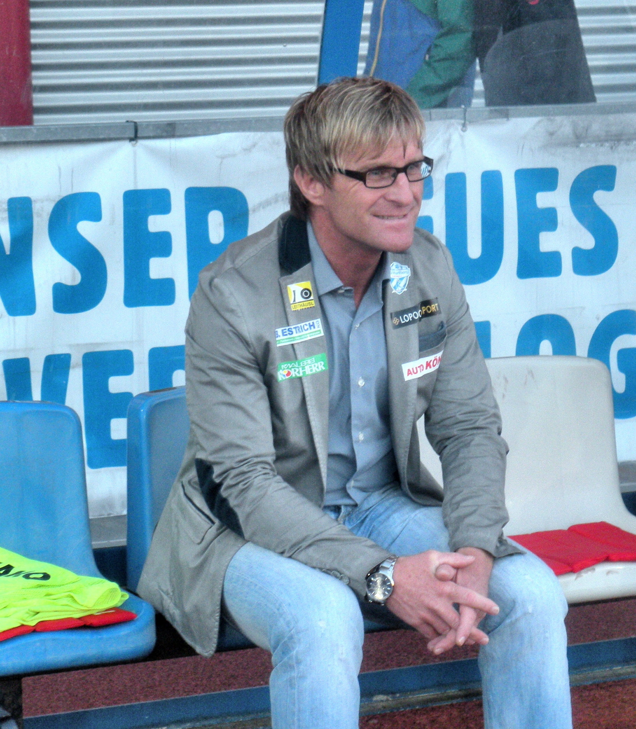 Walter Hörmann as new manager of TSV Hartberg just before his first "Erste Liga"-match with Hartberg vs FC Blau-Weiss Linz on 3 April 2012 at the stadium of Hartberg (Styria / Austria)